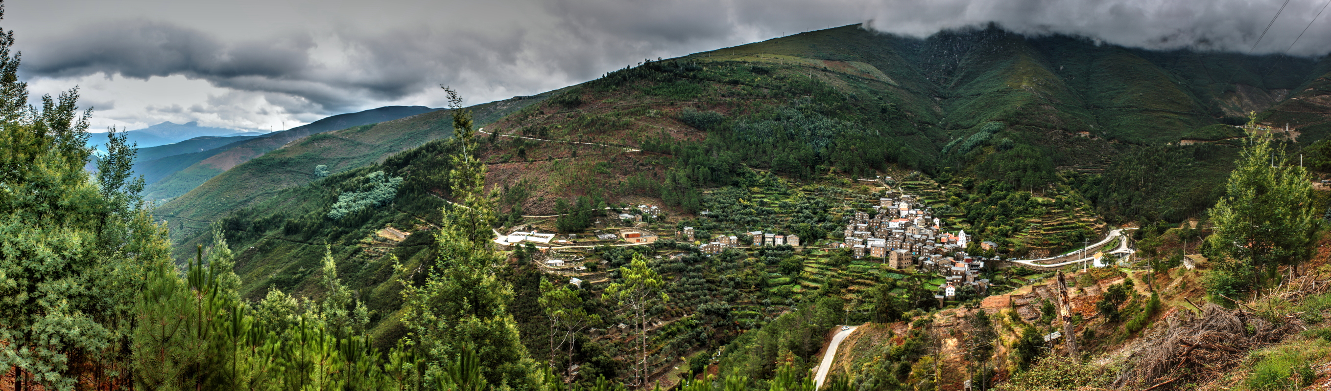 The village of Piódão and the Açor mountain. This is a photography of a Site of Community Importance in Portugal with the ID: PTCON0051. Natura2000 entry, EEA entry